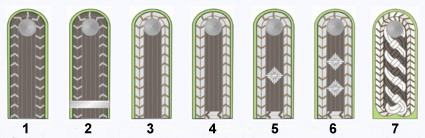 Rang insignias of the Third Reich until 1945, here shoulder straps of the regular police – enlisted ranks and NCOs without picture: Police-Aspirant Police-Unterwachtmeister Rottwachtmeister Police-Wachtmeister Police-Oberwachtmeister respective Junker (Officer aspirant) Revier-Oberwachtmeister, District´s-Oberwachtmeister and Platoon-Oberwachtmeister Police-Hauptwachtmeister and/or Oberjunker (Officer aspirant) Police-Meister without picture: Police-Obermeister (1star, silver), Police-Inspector (2 stars, silver), Police-Oberinspector (2 stars, golden).